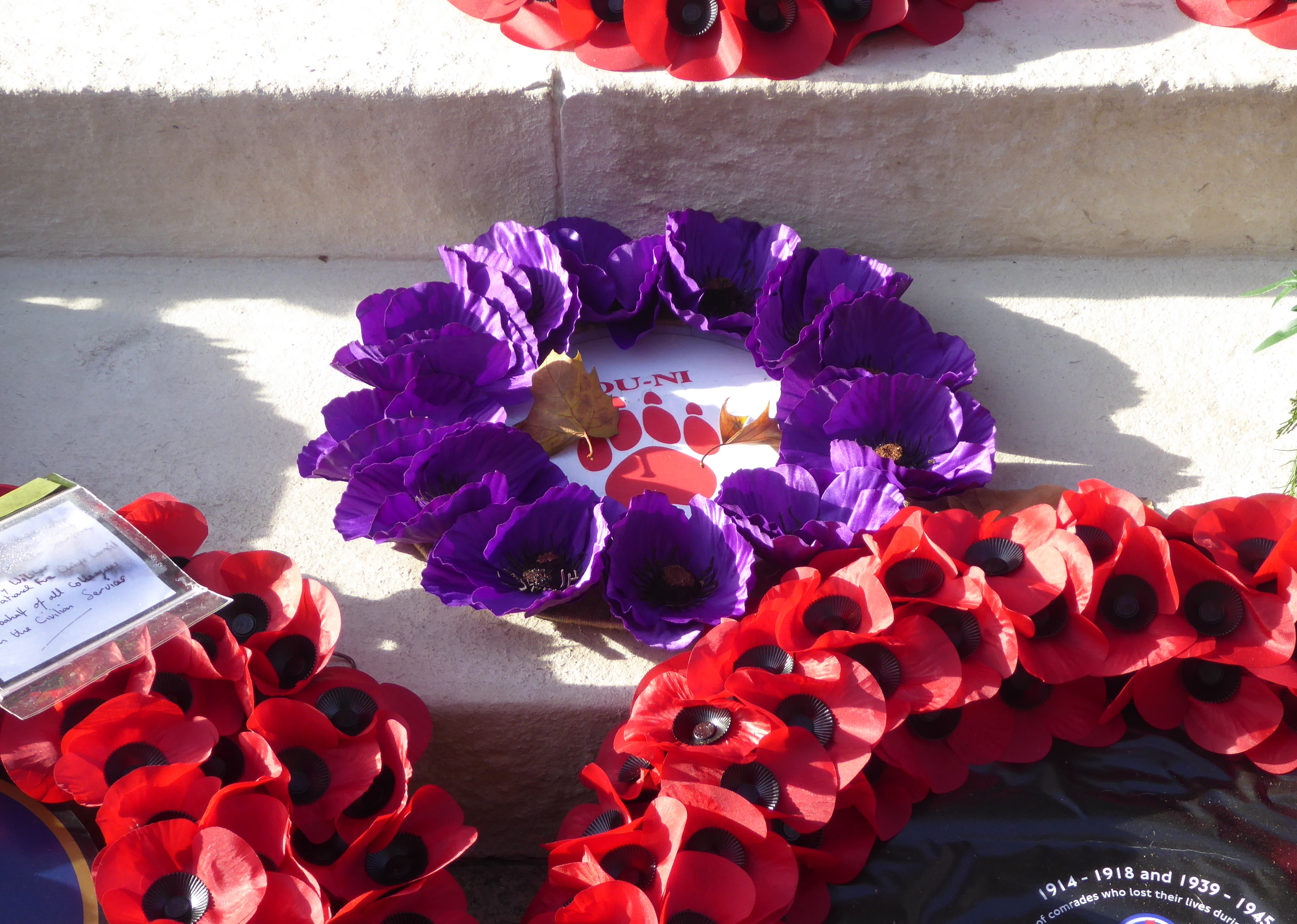 The purple poppy wreath to mark non-human animals involved in conflict, on the eastern side of the Cenotaph in Whitehall, London in 2018.